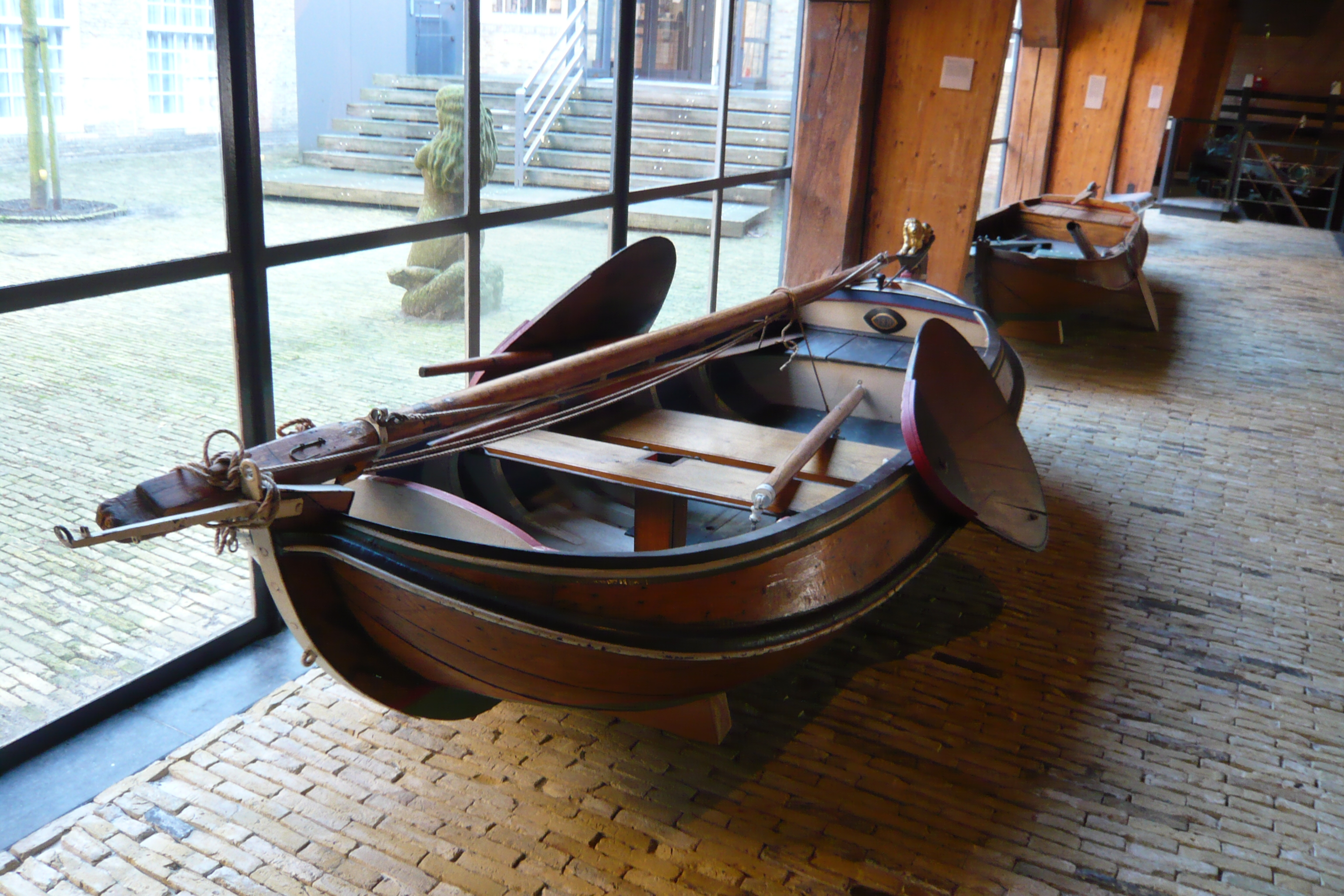 Zuiderzee museum, Enkhuizen